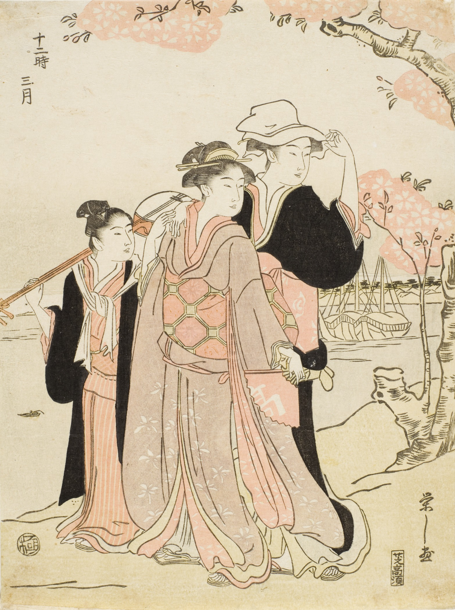 Japan, 1780s Descriptive: three women walking Prints; woodcuts Color woodblock print Image and sheet: 10 1/8 x 7 1/2 in. (25.72 x 19.05 cm); Mat: 18 x 14 in. (45.72 x 35.56 cm) Gift of Gwendolyn and Henry Baker (M.2006.182.1) Japanese Art